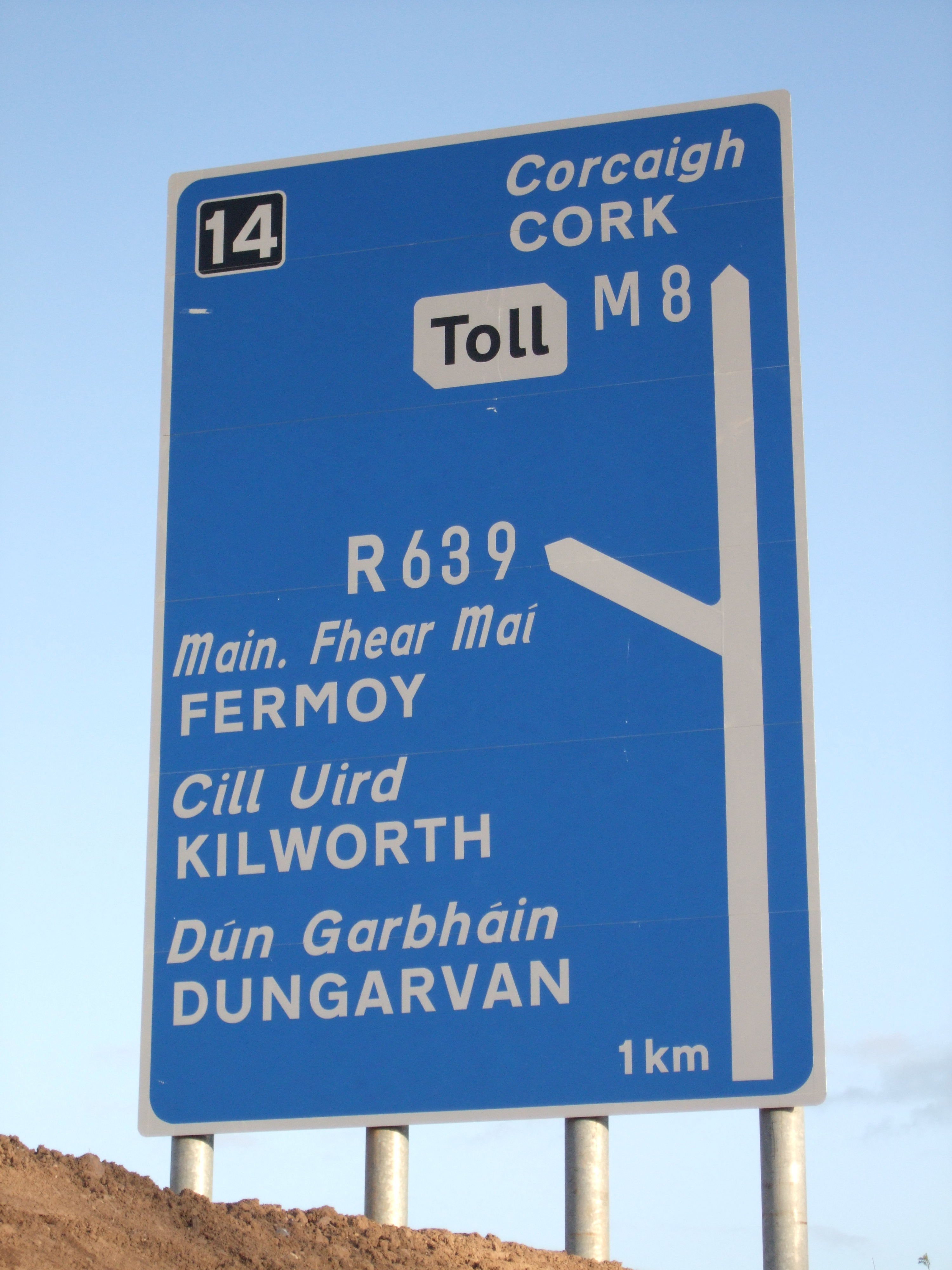 ADS signage on the M8, Ireland